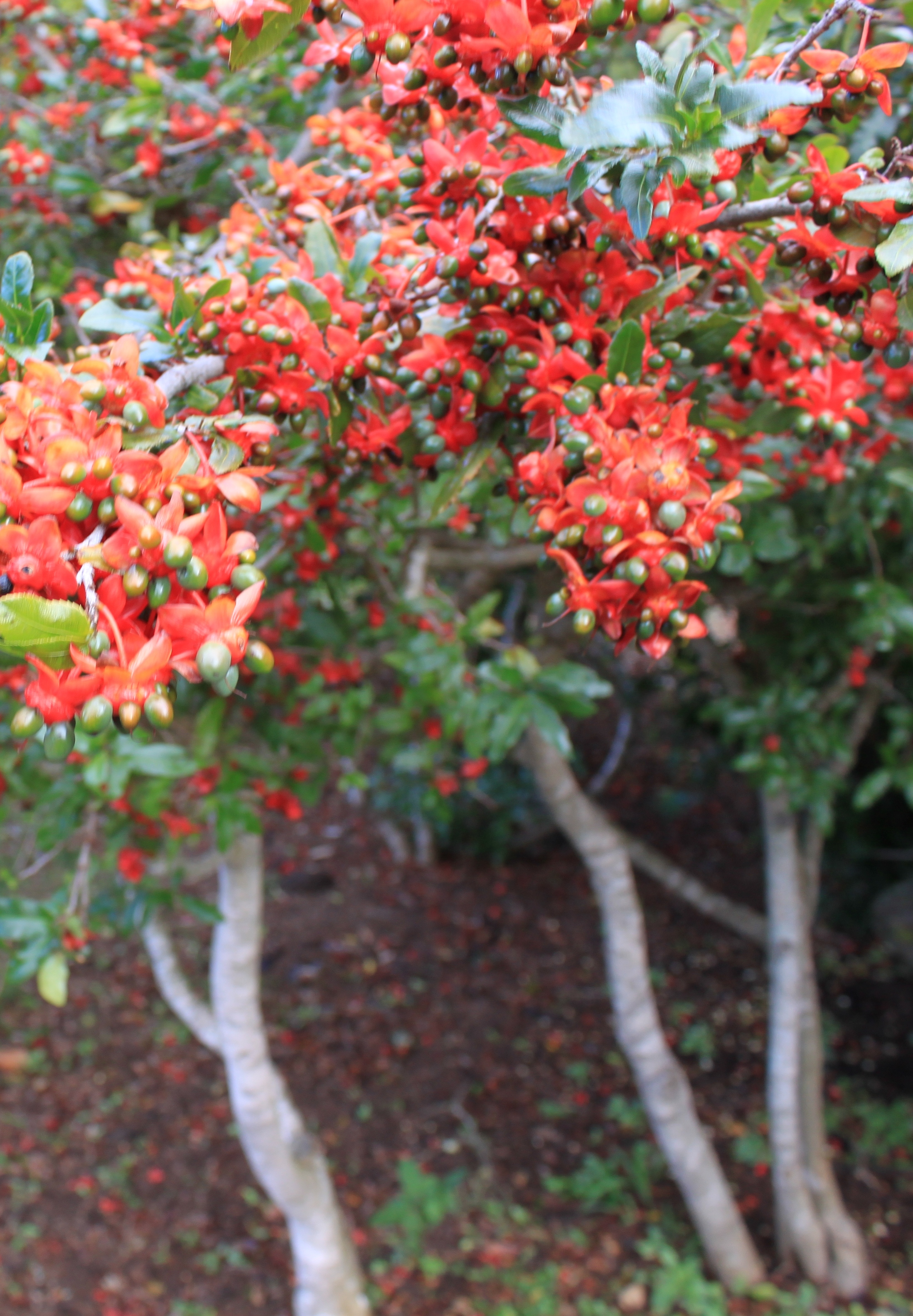 Ochna serrulata. A bush or small tree indigenous to South Africa.